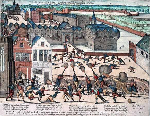 copperplate engraving, colored, of the Siege of Breda 1581.